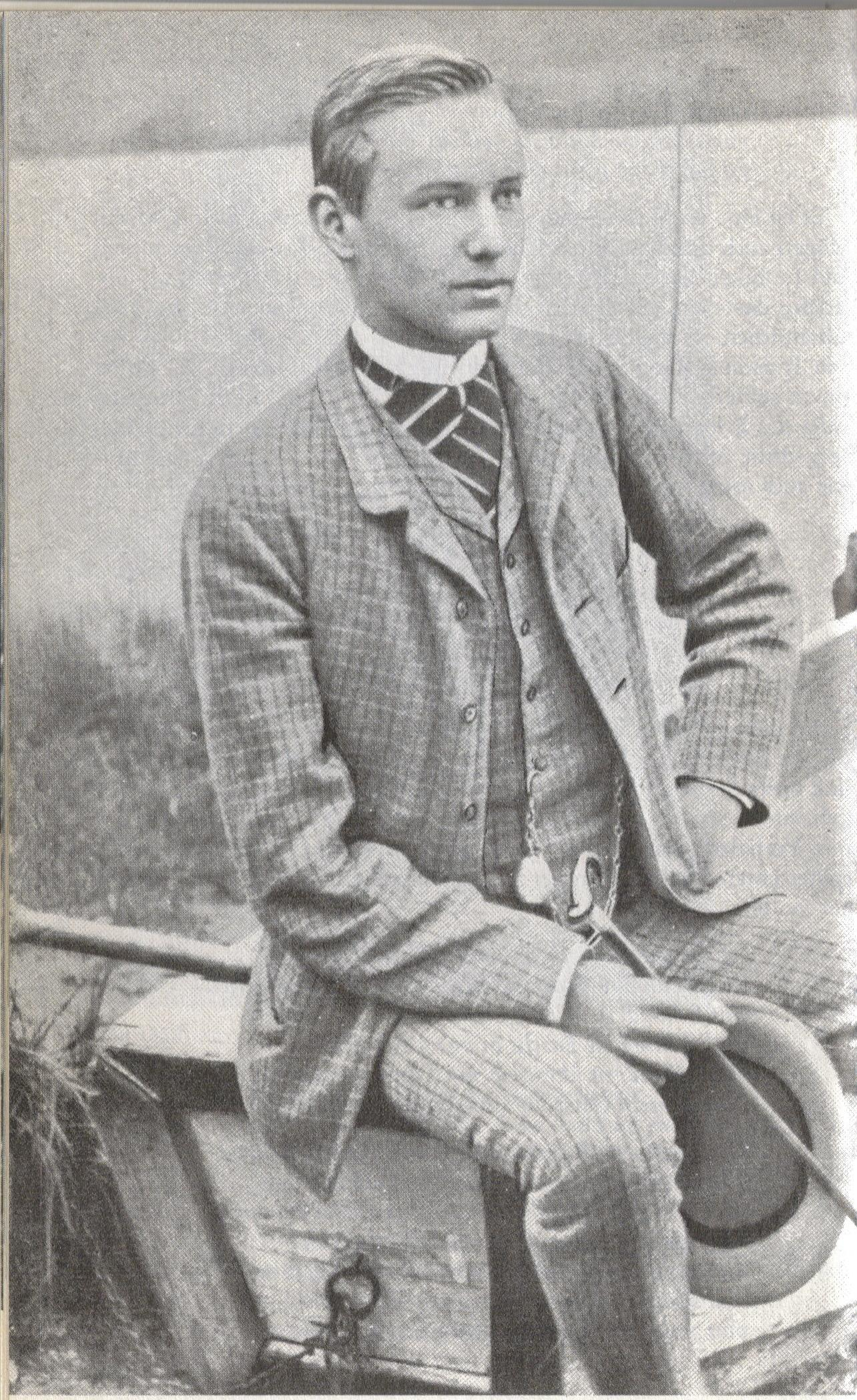 Christian Morgenstern Age: 18 Date: About 1889 Licensing This work is in the public domain in its country of origin and other countries and areas where the copyright term is the author's life plus 70 years or less. You must also include a United States public domain tag to indicate why this work is in the public domain in the United States. Note that a few countries have copyright terms longer than 70 years: Mexico has 100 years, Jamaica has 95 years, Colombia has 80 years, and Guatemala and Samoa have 75 years. This image may not be in the public domain in these countries, which moreover do not implement the rule of the shorter term. Côte d'Ivoire has a general copyright term of 99 years and Honduras has 75 years, but they do implement the rule of the shorter term. Copyright may extend on works created by French who died for France in World War II (more information), Russians who served in the Eastern Front of World War II (known as the Great Patriotic War in Russia) and posthumously rehabilitated victims of Soviet repressions (more information). This file has been identified as being free of known restrictions under copyright law, including all related and neighboring rights.